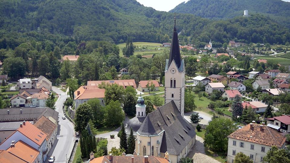 st. George archparish church, Slovenske Konjice, Slovenia